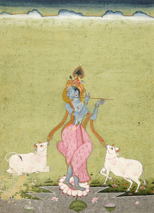 Govinda Deccan School, Bikaner, c. 1820